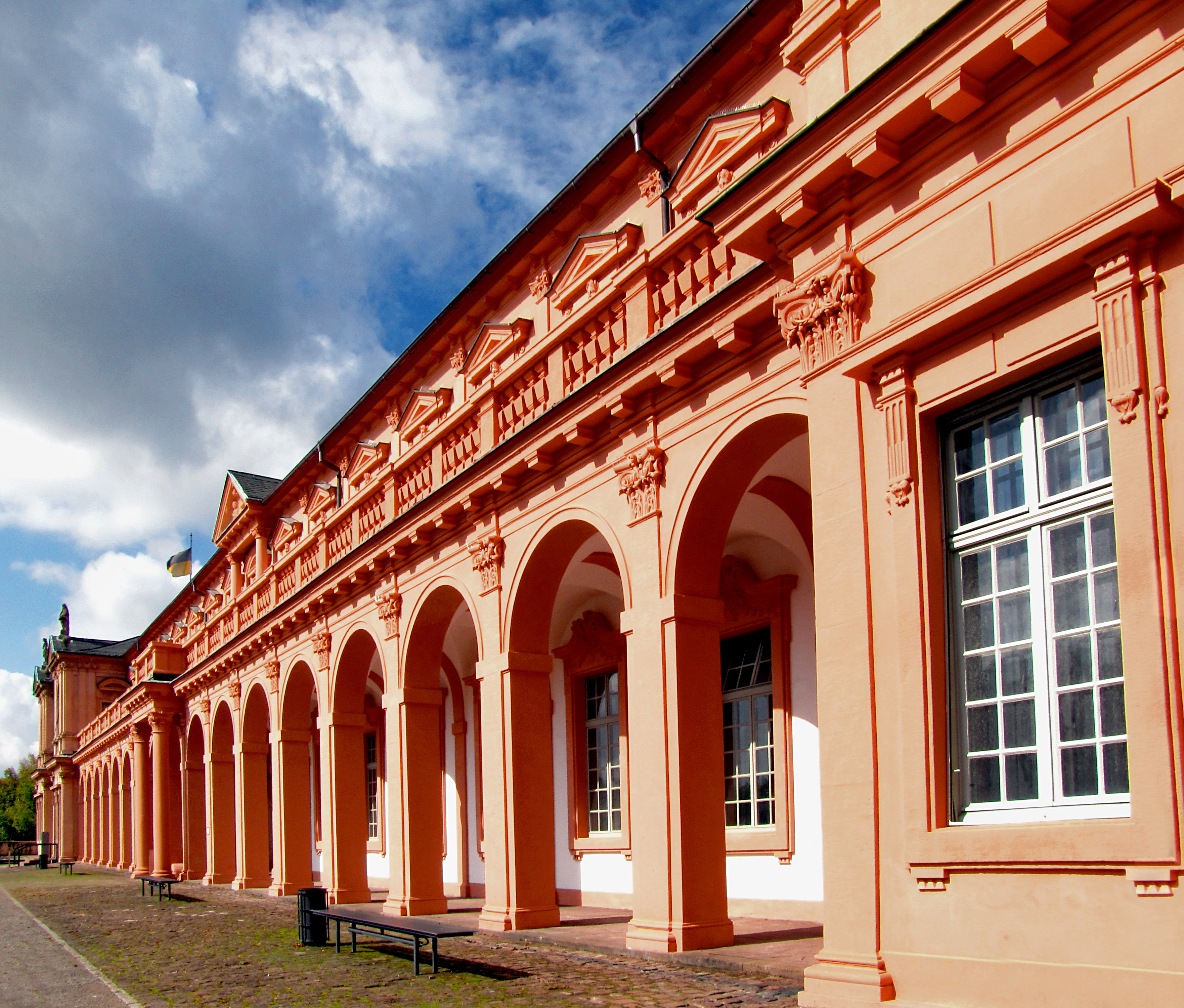 Left side wing of the Castle Rastatt, view from the main building